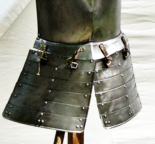 medieval helmet, two breastplates, faulds, a halberd and two military marching drums. New made replicas.